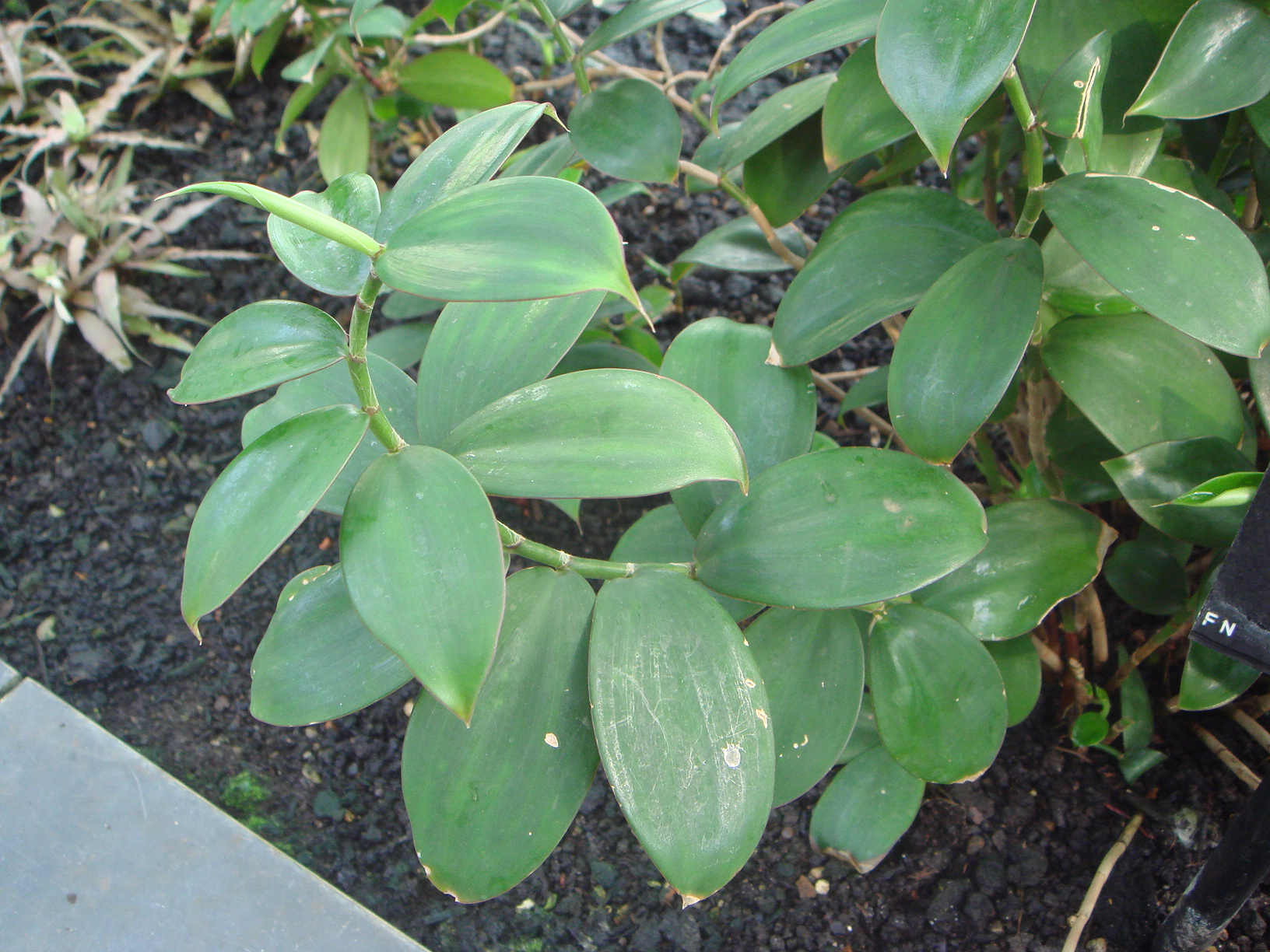 (Monocostus uniflorus) in Kew Gardens , UK.